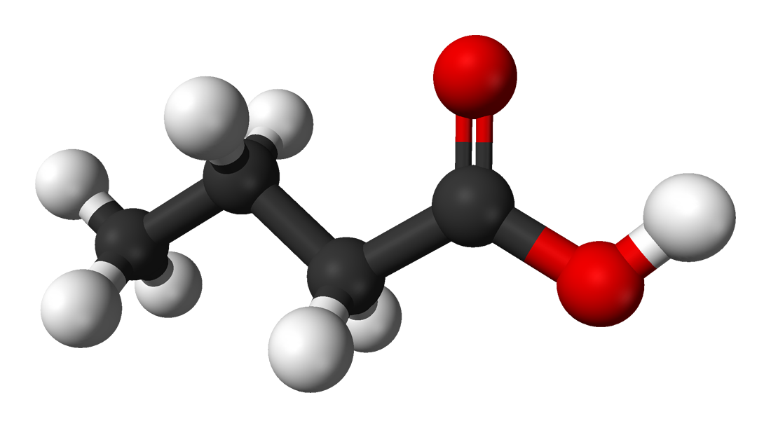 Ball-and-stick model of butyric acid (butanoic acid)